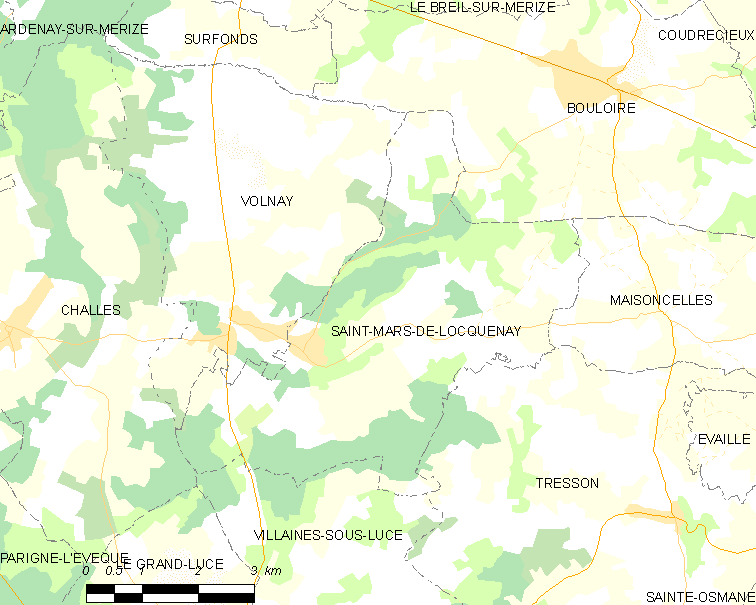 Map of French municipality